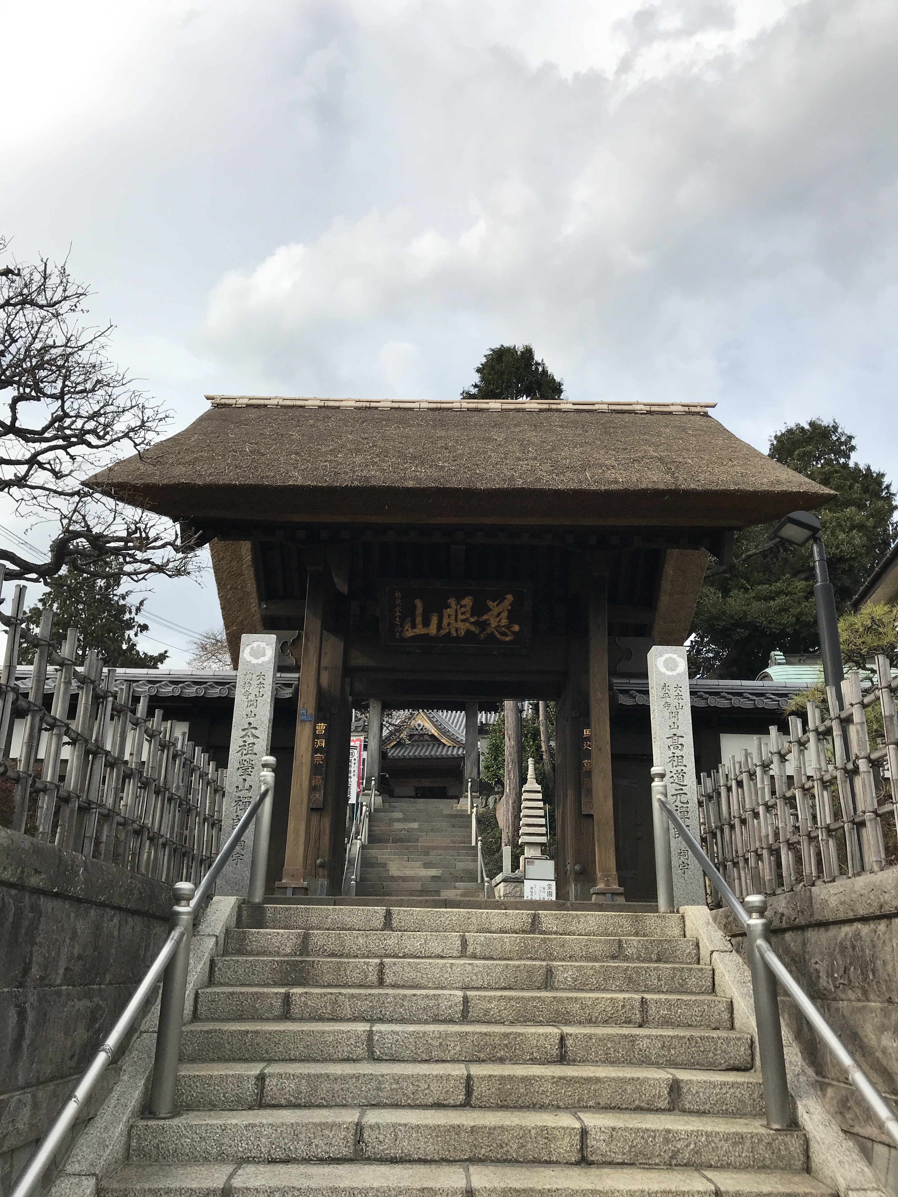 Main gate of Manpuku-ji temple